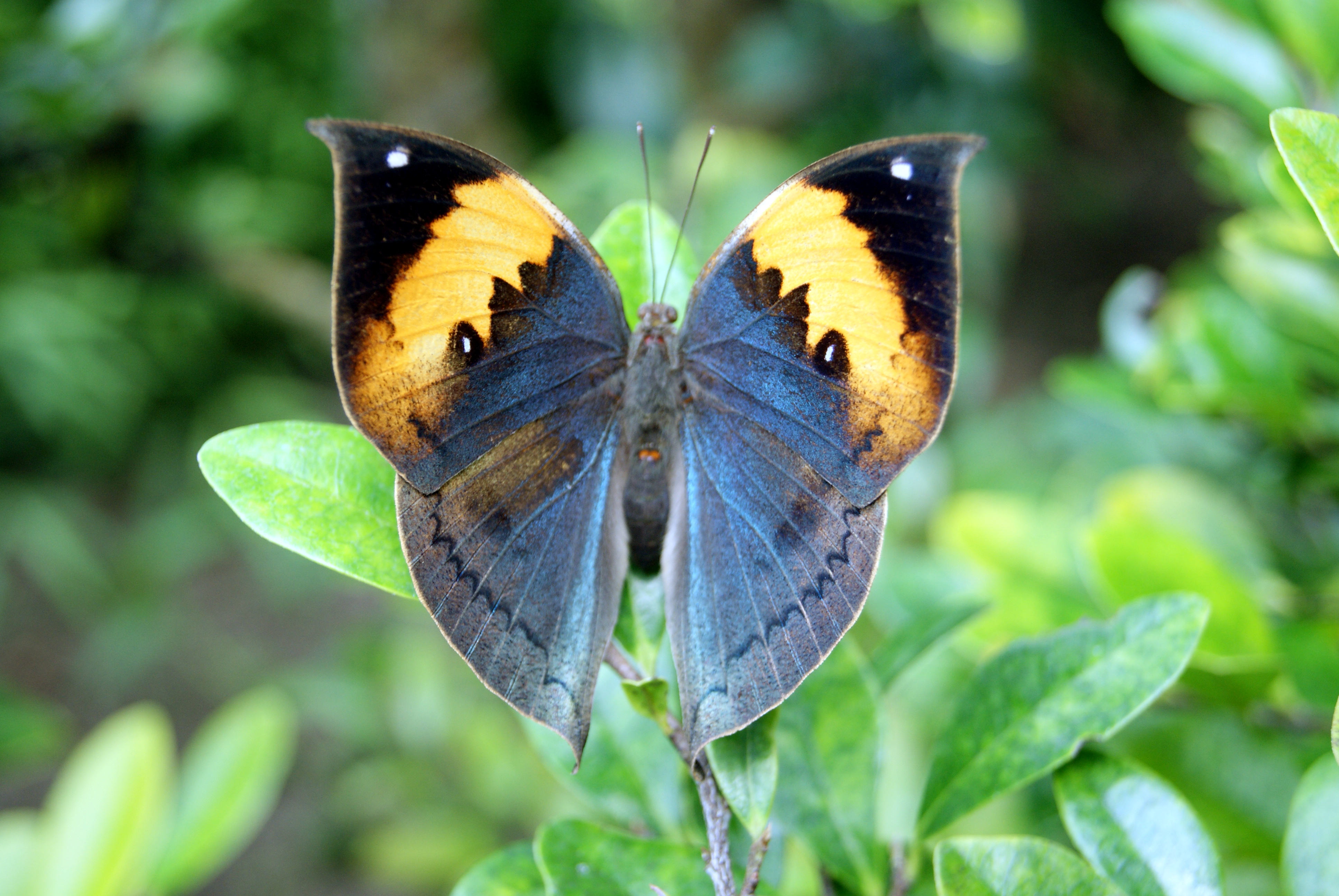 Kallima inachus at Gunma Insect World.